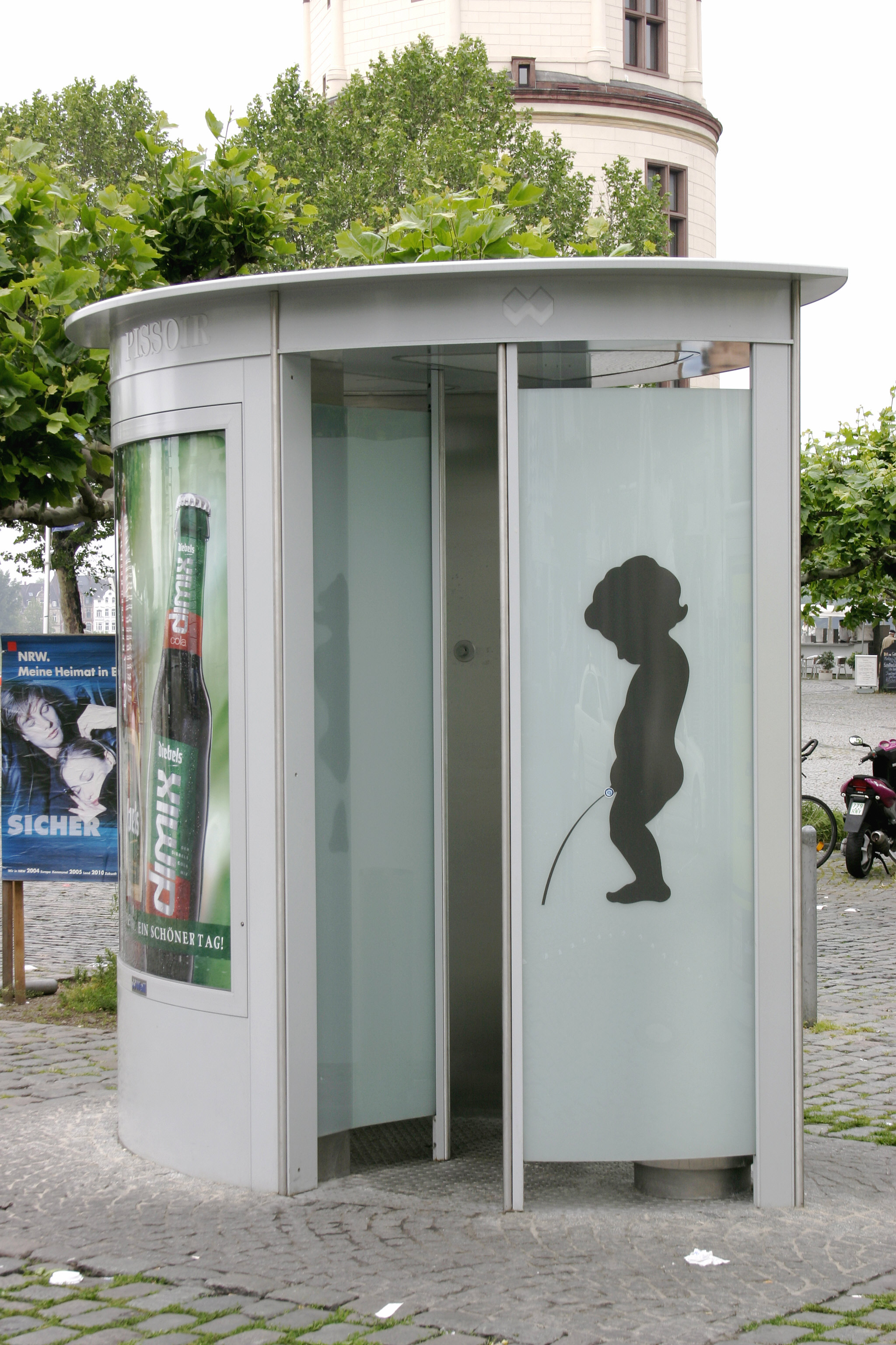 Public urinal in Duesseldorf, Northrhine-Westphalia, Germany